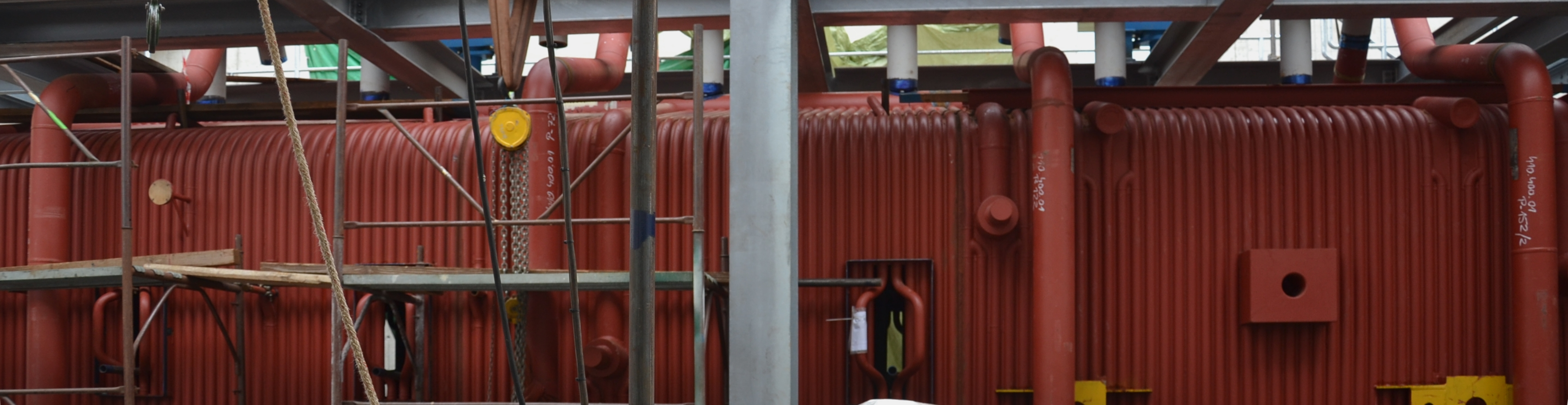 Falling Pipes of a Vessel